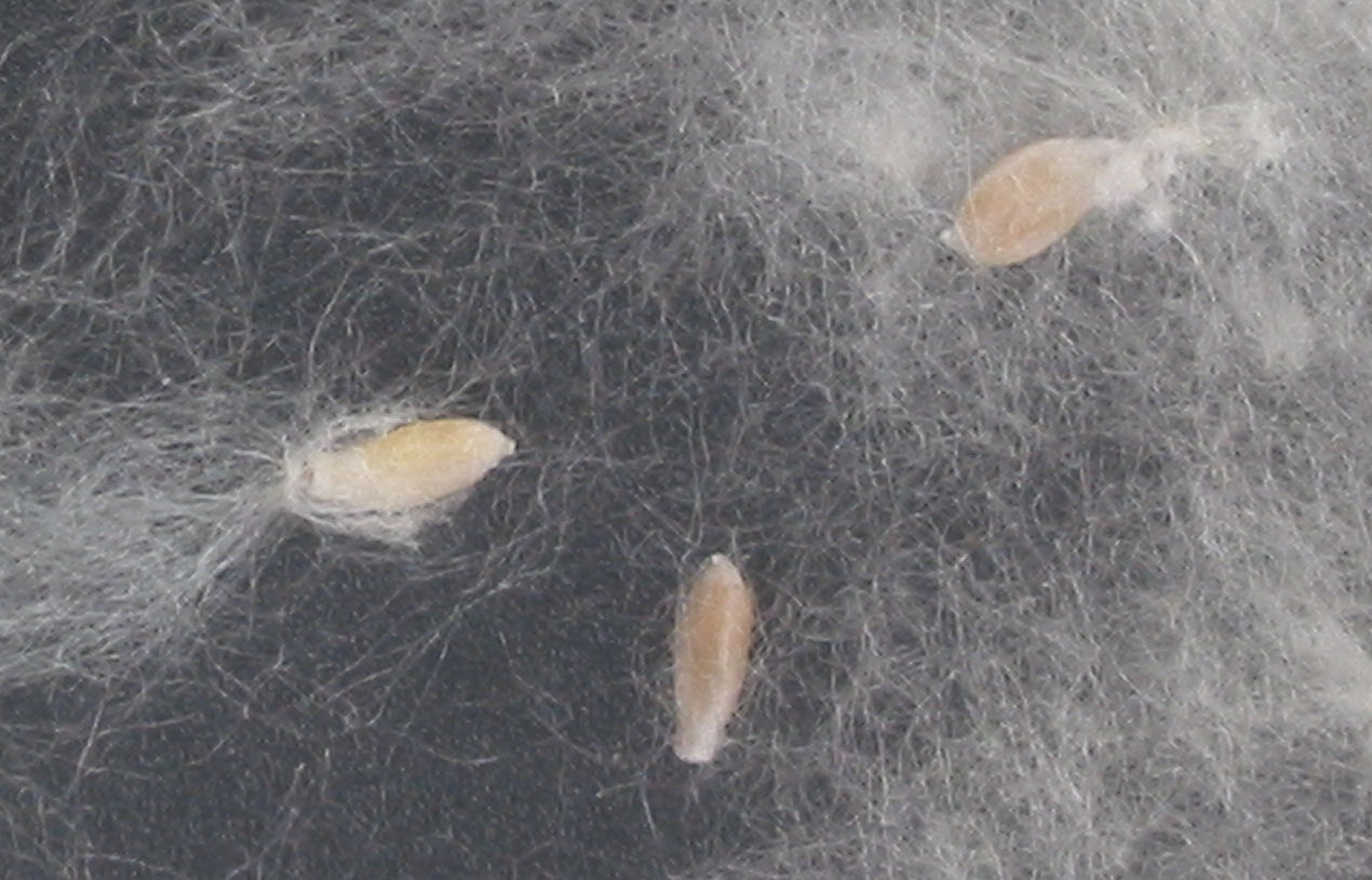 Seedhairs and seeds of Populus